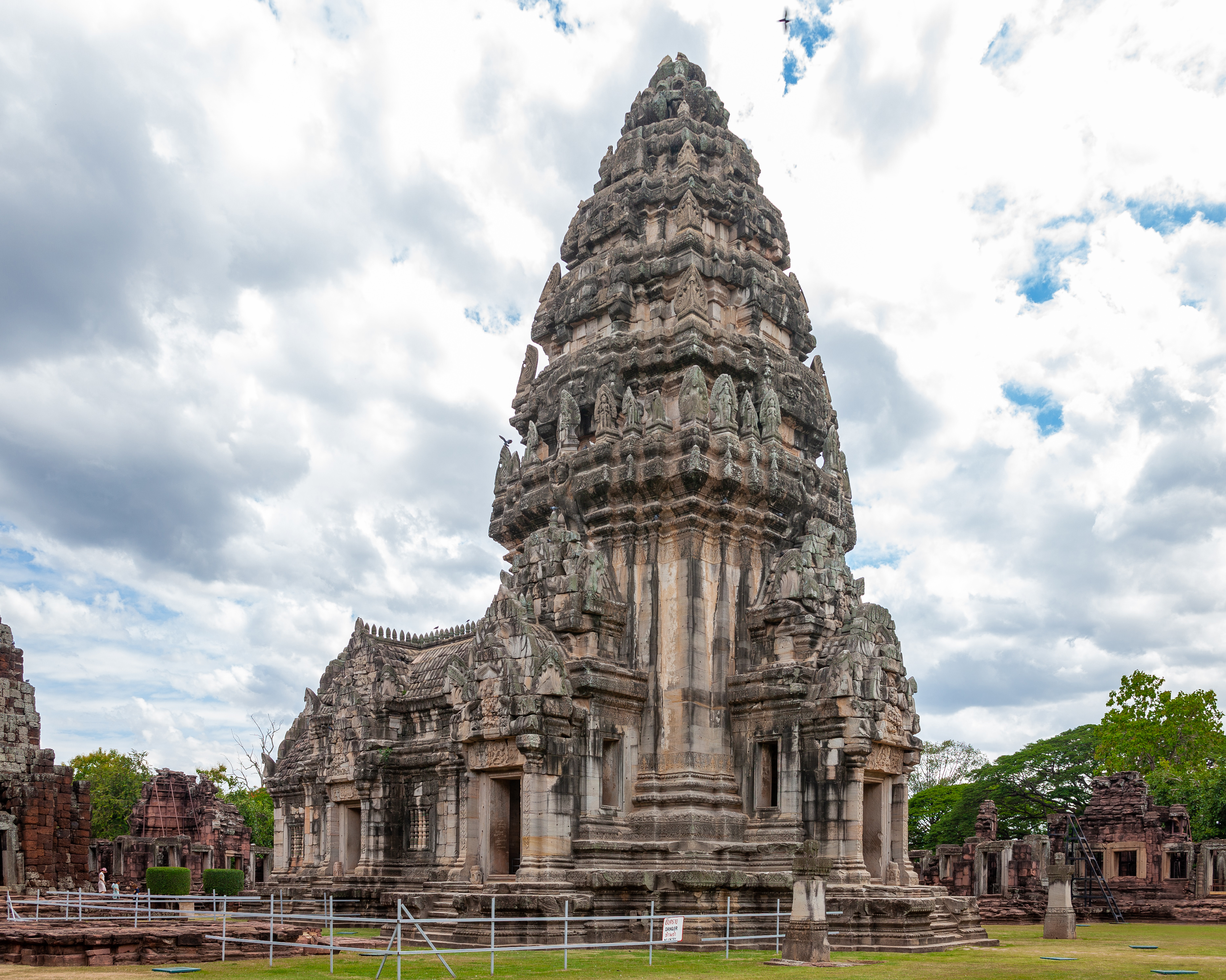 Phimai temple, in Phimai city, Northeast Thailand.